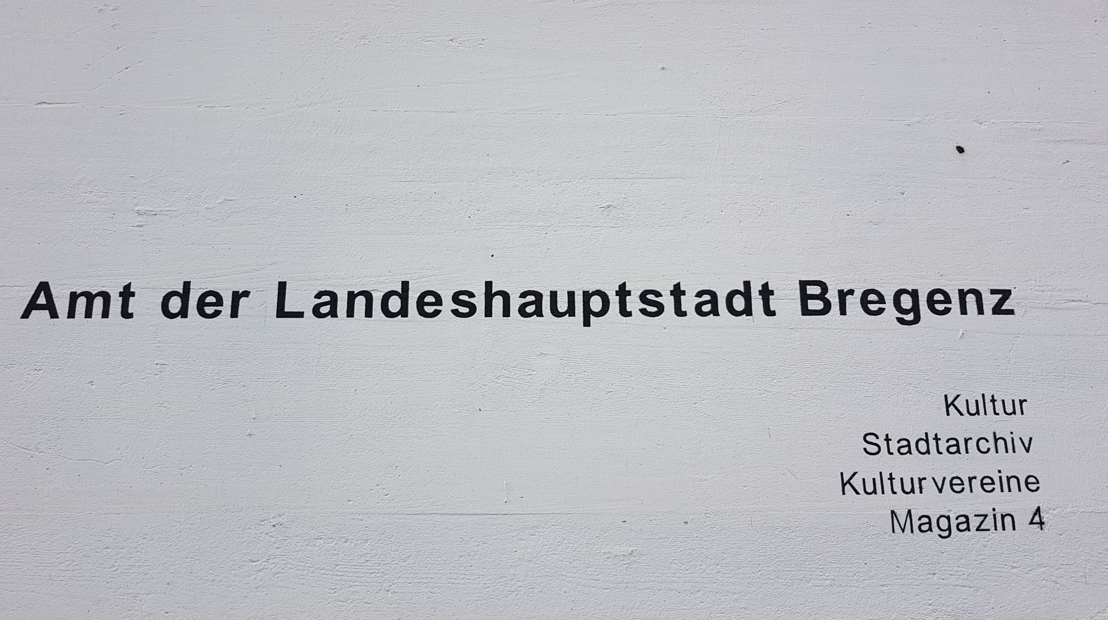 Former warehouse of the company Pircher in Bregenz, Vorarlberg, Austria. Today the cultural center "Magazin 4", archive of the city of Bregenz (city archive), cultural department. In the picture: Foyer Cafe Bar.